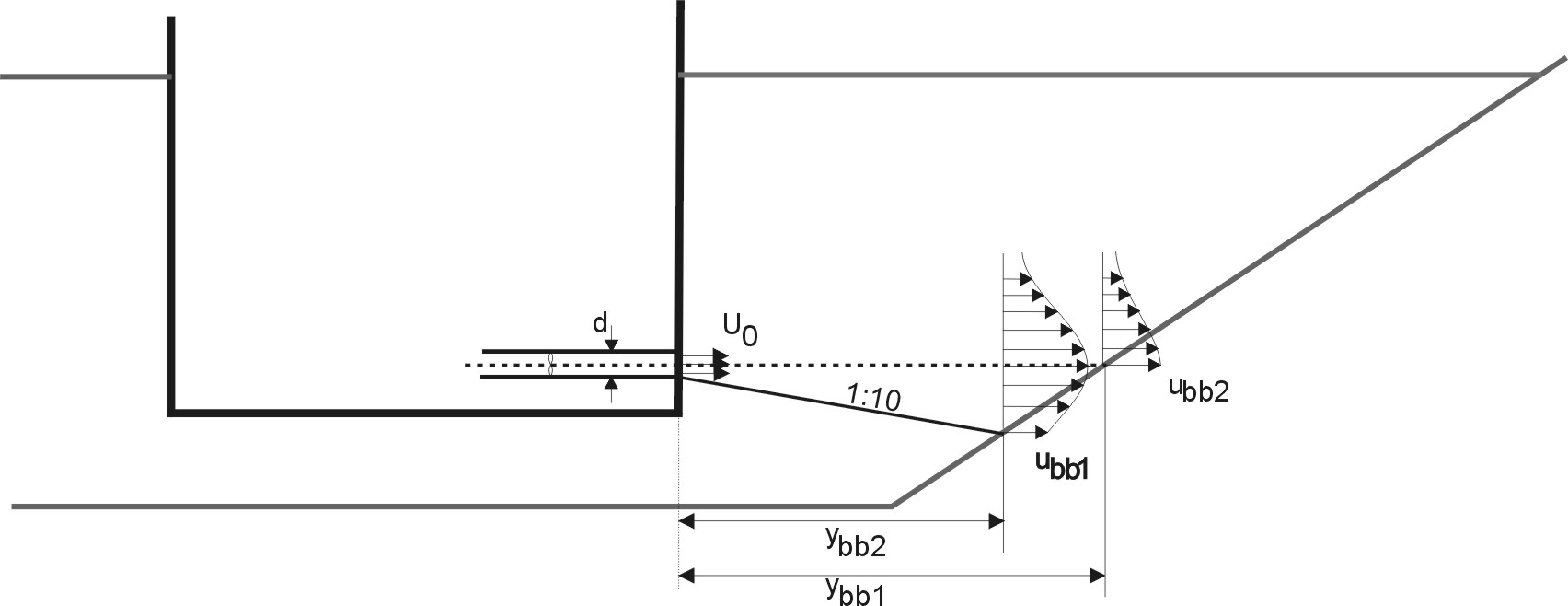 Definitions for computation of currents by bow thrusters, calculation of jets. See also PIANC publication 180